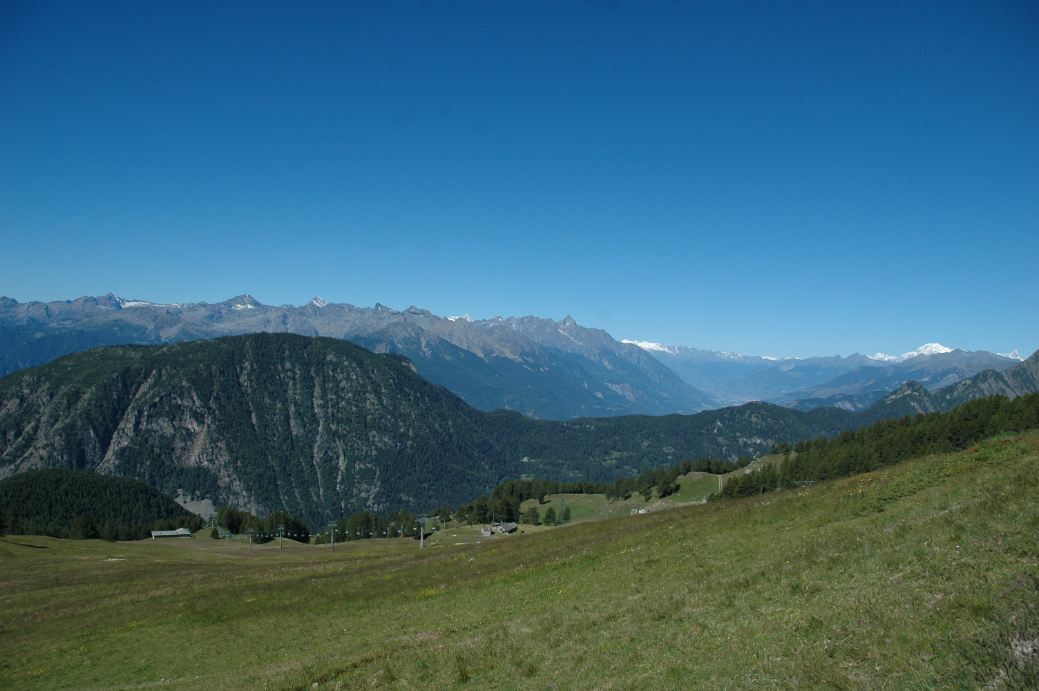 Col di Joux from Palasinaz Alp in Brusson (Aosta Valley - Italy